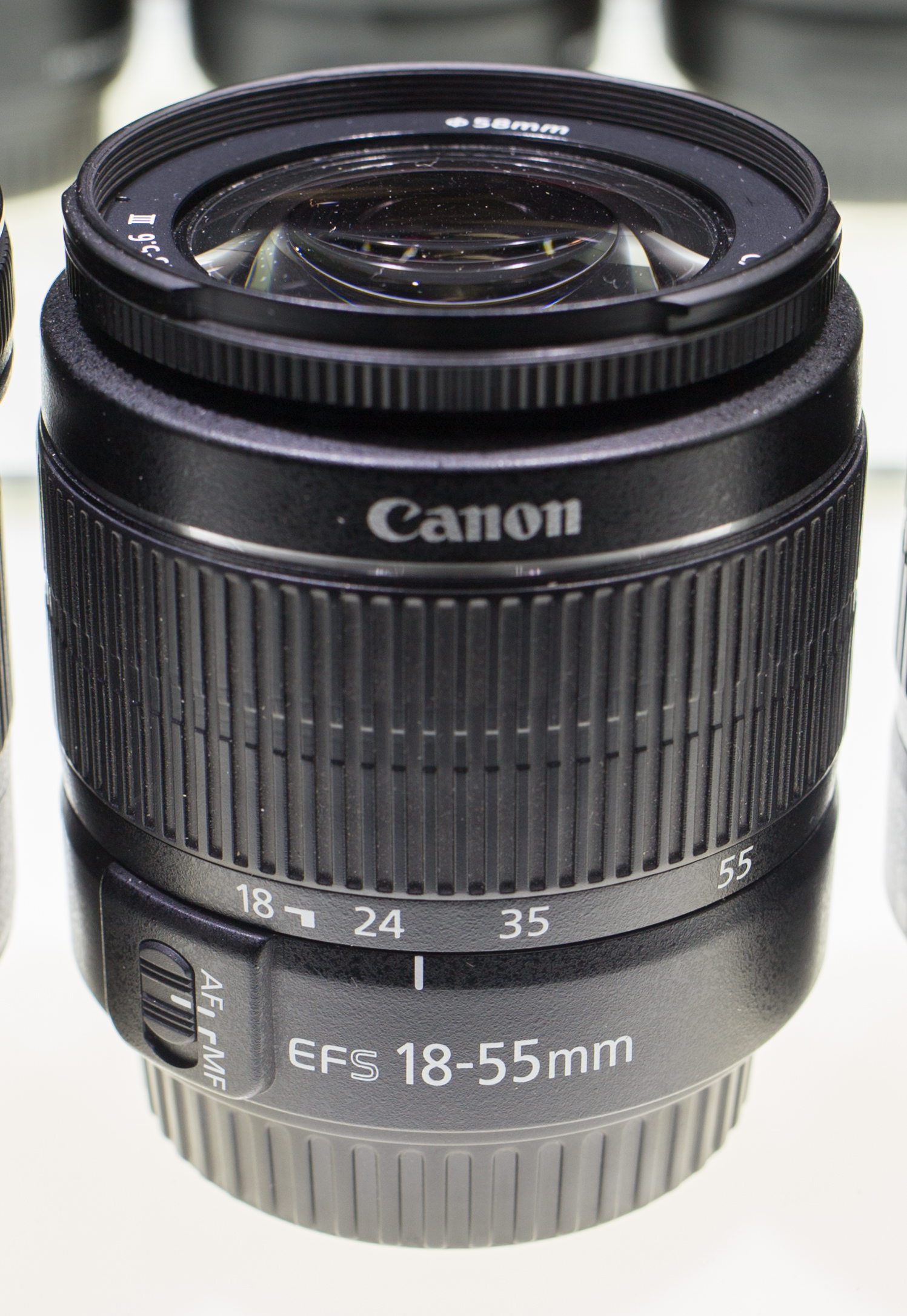 Image of the Canon EF-S 18–55mm III lens